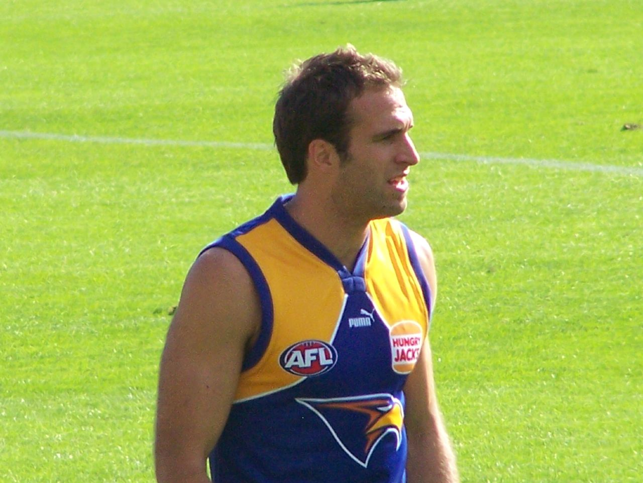 Chris Judd during his times at West Coast. He was later traded to Carlton.